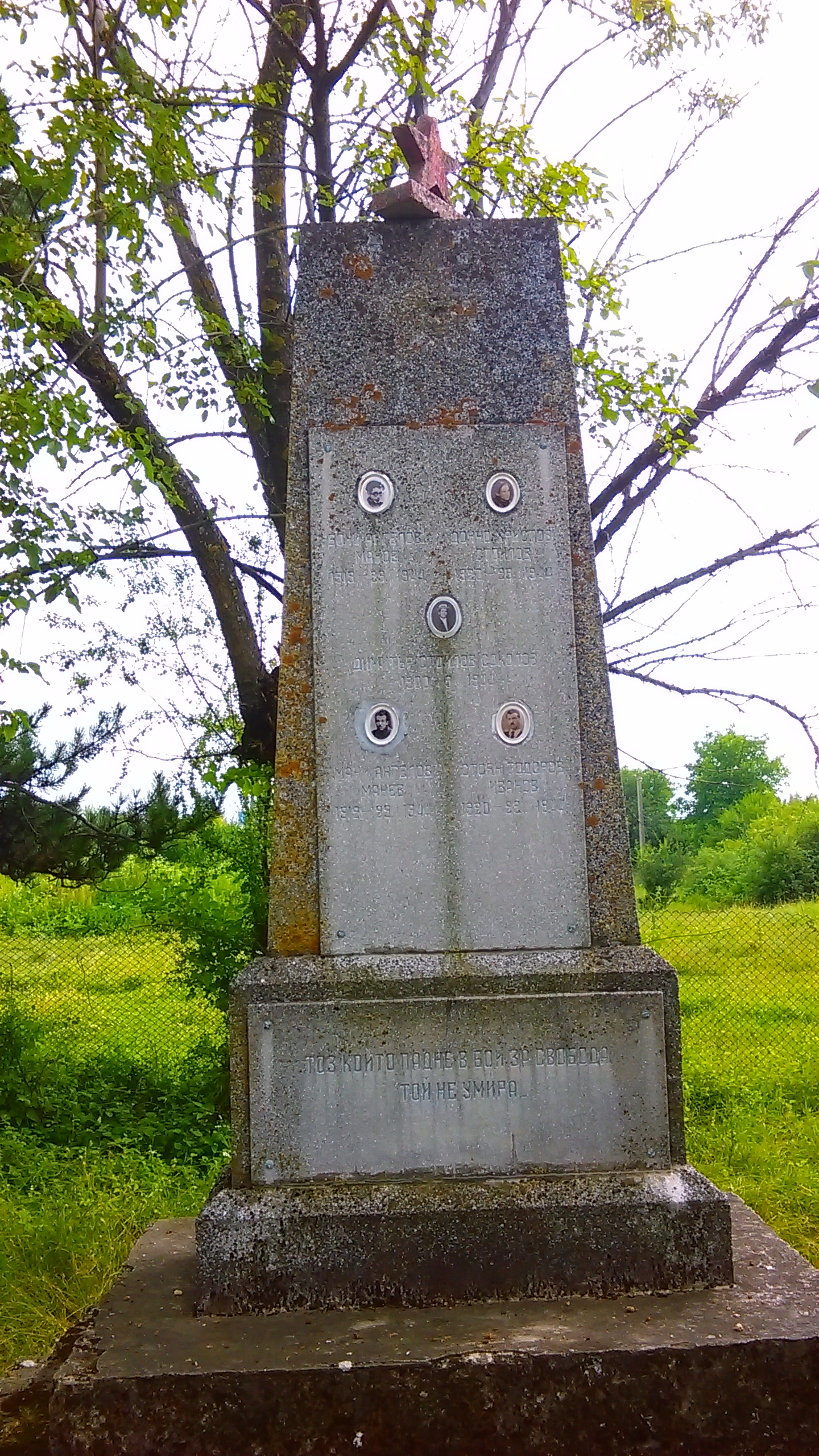 A memorial to Kyosevtsi partizans